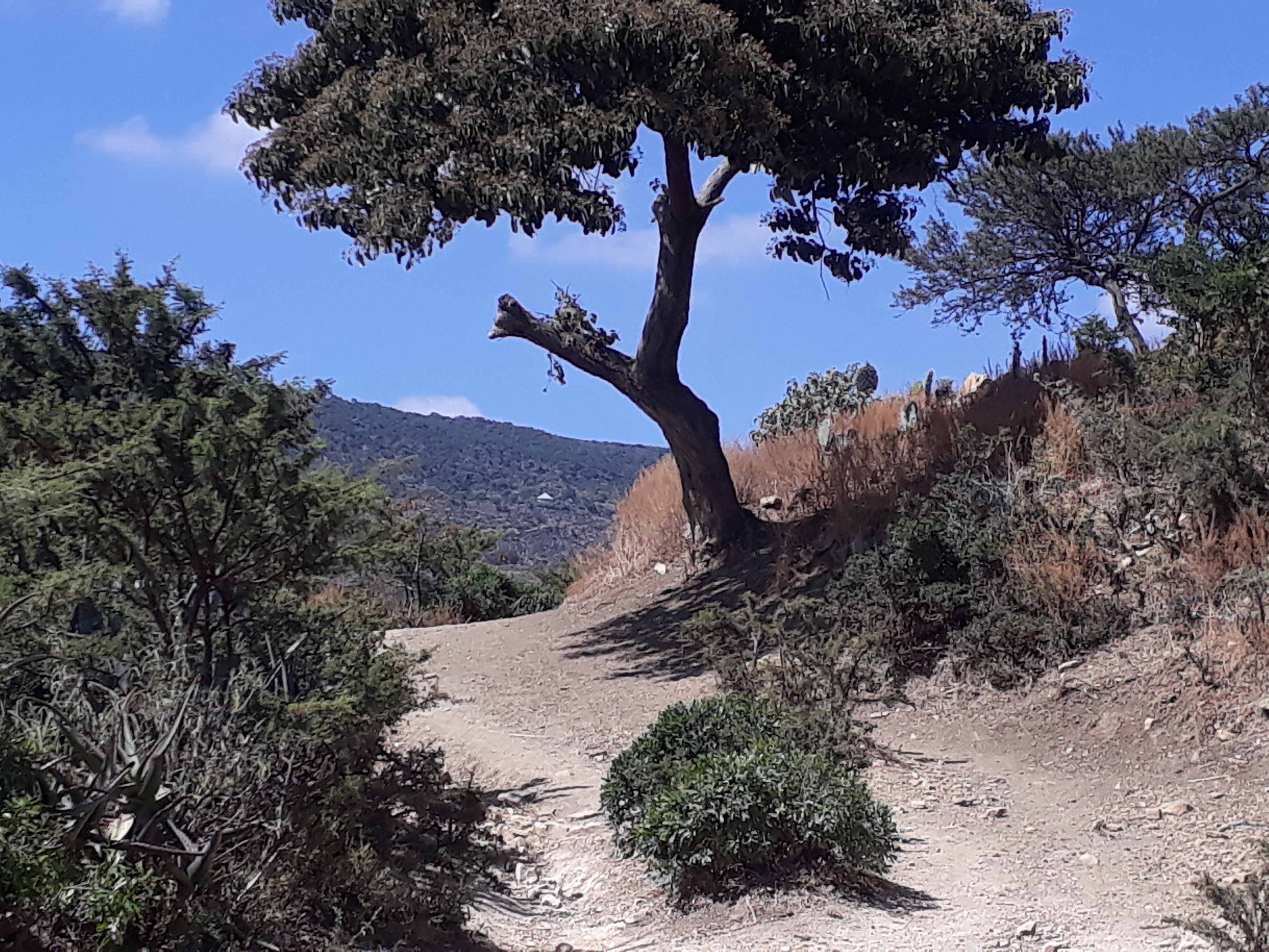 footpath in Zerfenti - at the back Rufa'el church